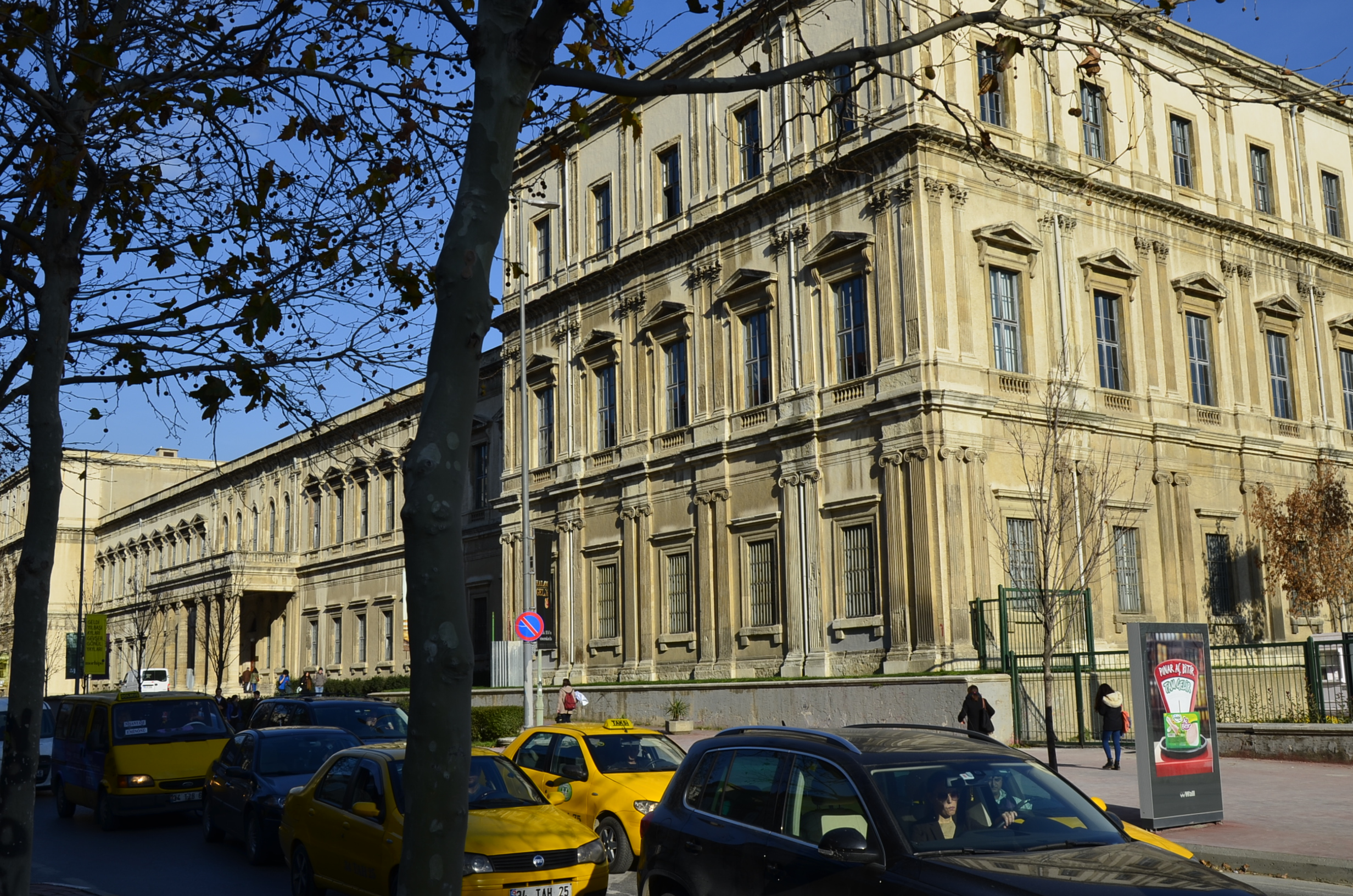 Taşkışla Campus of Istanbul Technical University